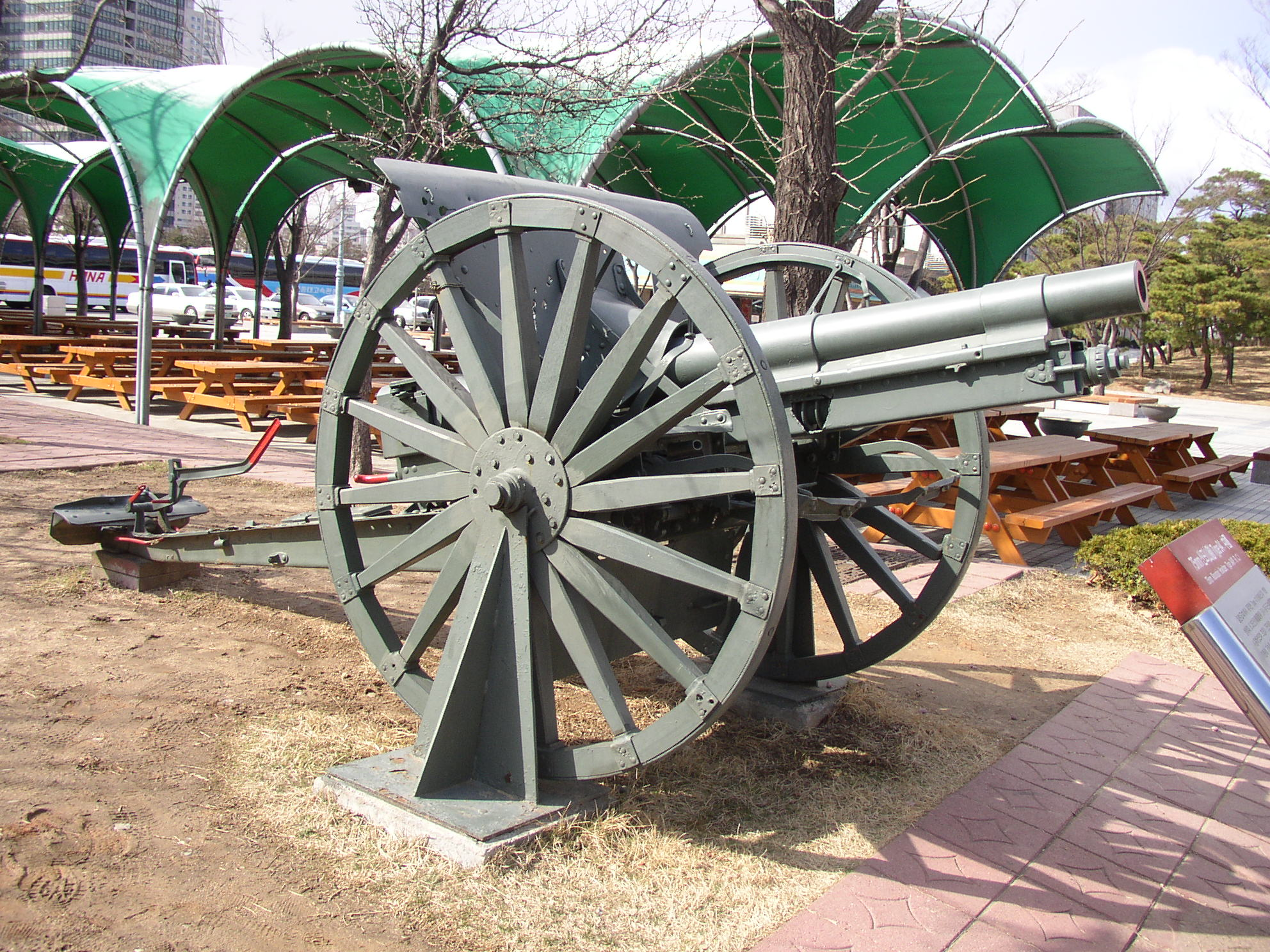 75mm Mountain Howitzer, Type 94 (P.R.C) displayed at War Memorial of Korea.